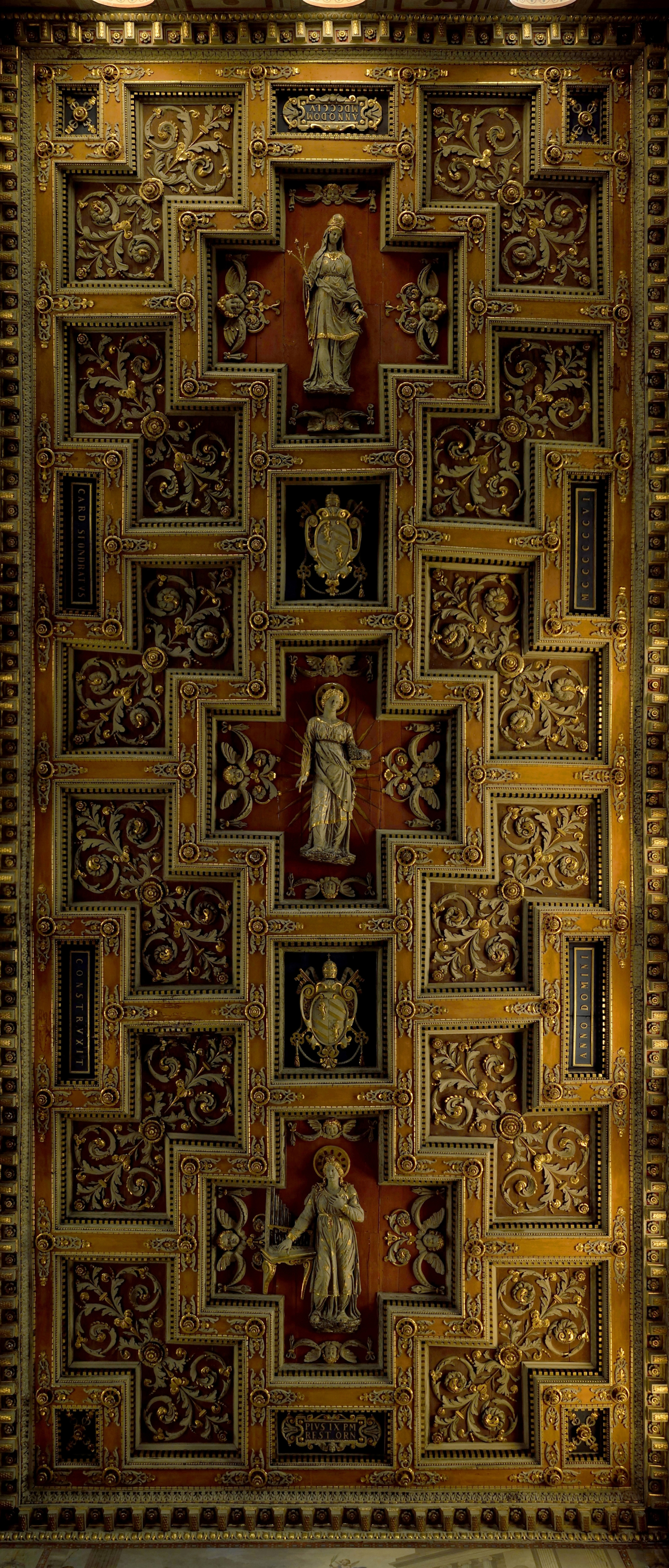 Roof of Sant'Agnese fuori le mura (Rome)